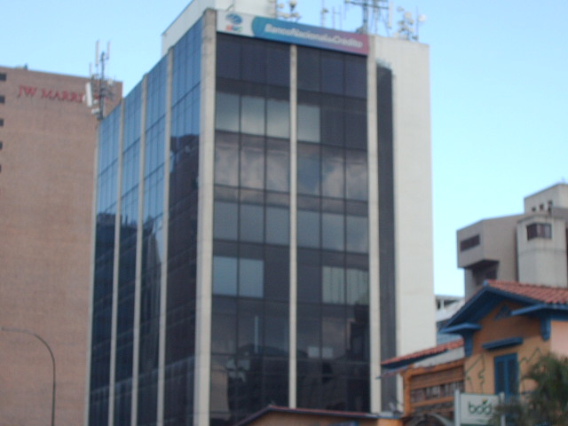 BNC building, Caracas-Venezuela